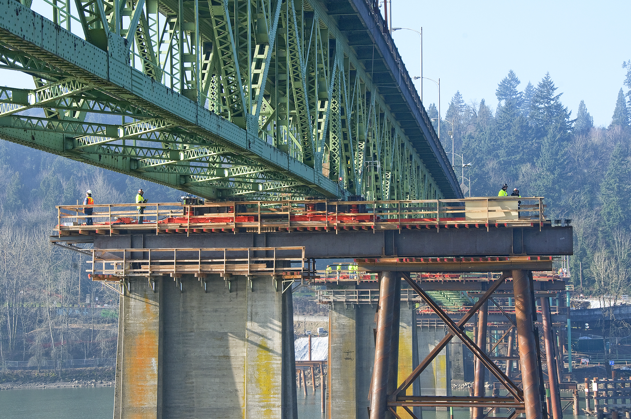 Dish detergent is one important ingredient used to help slide the Sellwood Bridge into place.